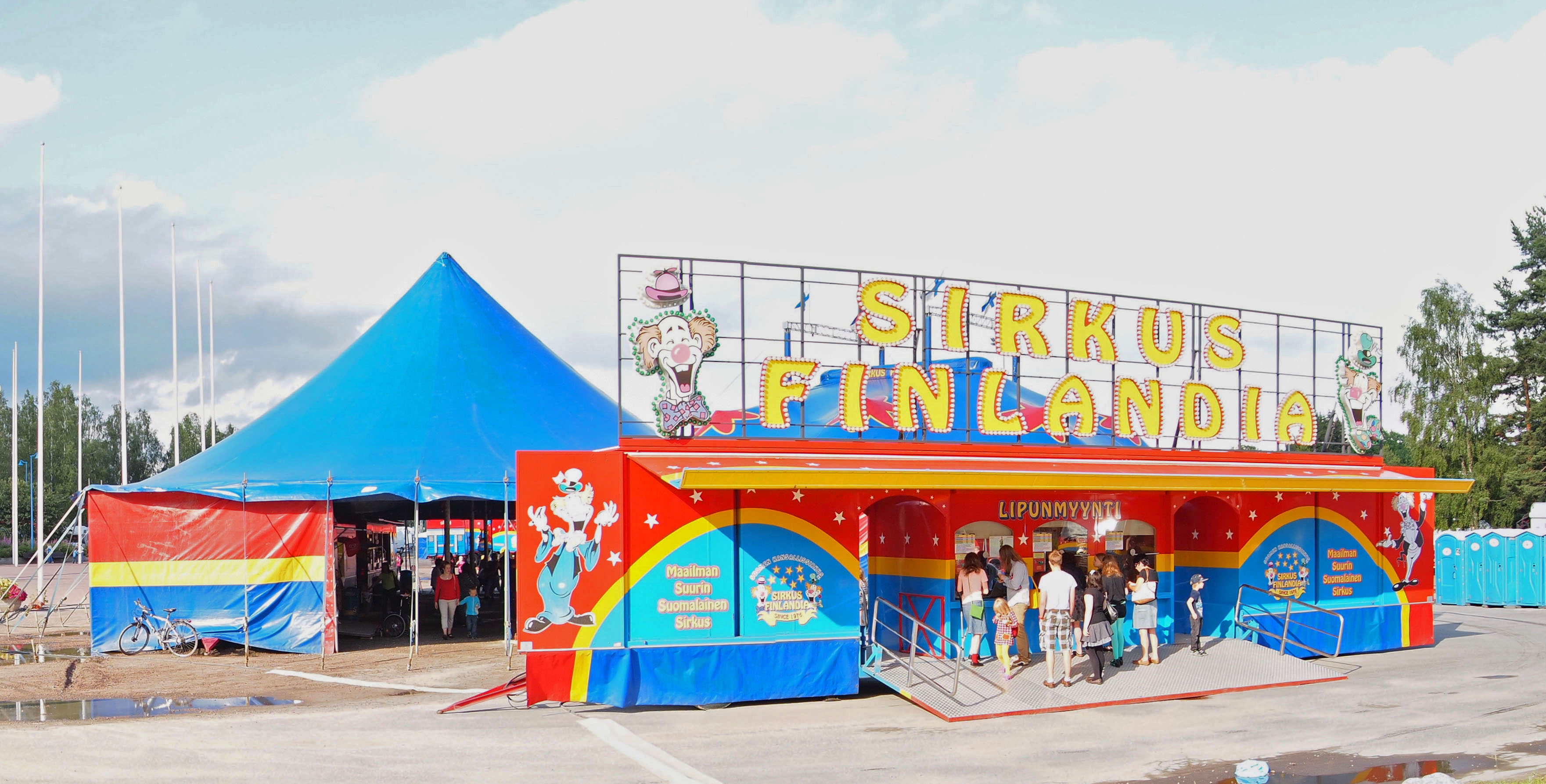 Ticket sale of Sirkus Finlandia in Jyväskylä.